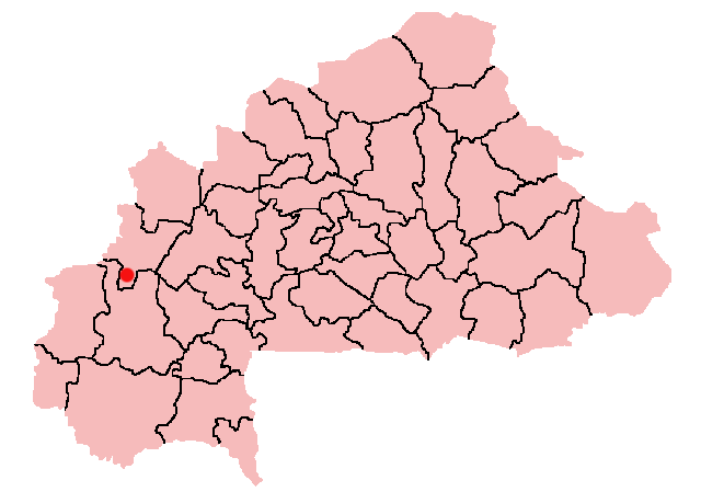 Kouka, Burkina Faso Location Map; created with the GIMP. Made by User:Acntx.